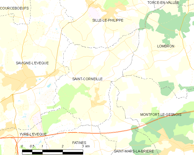 Map of French municipality